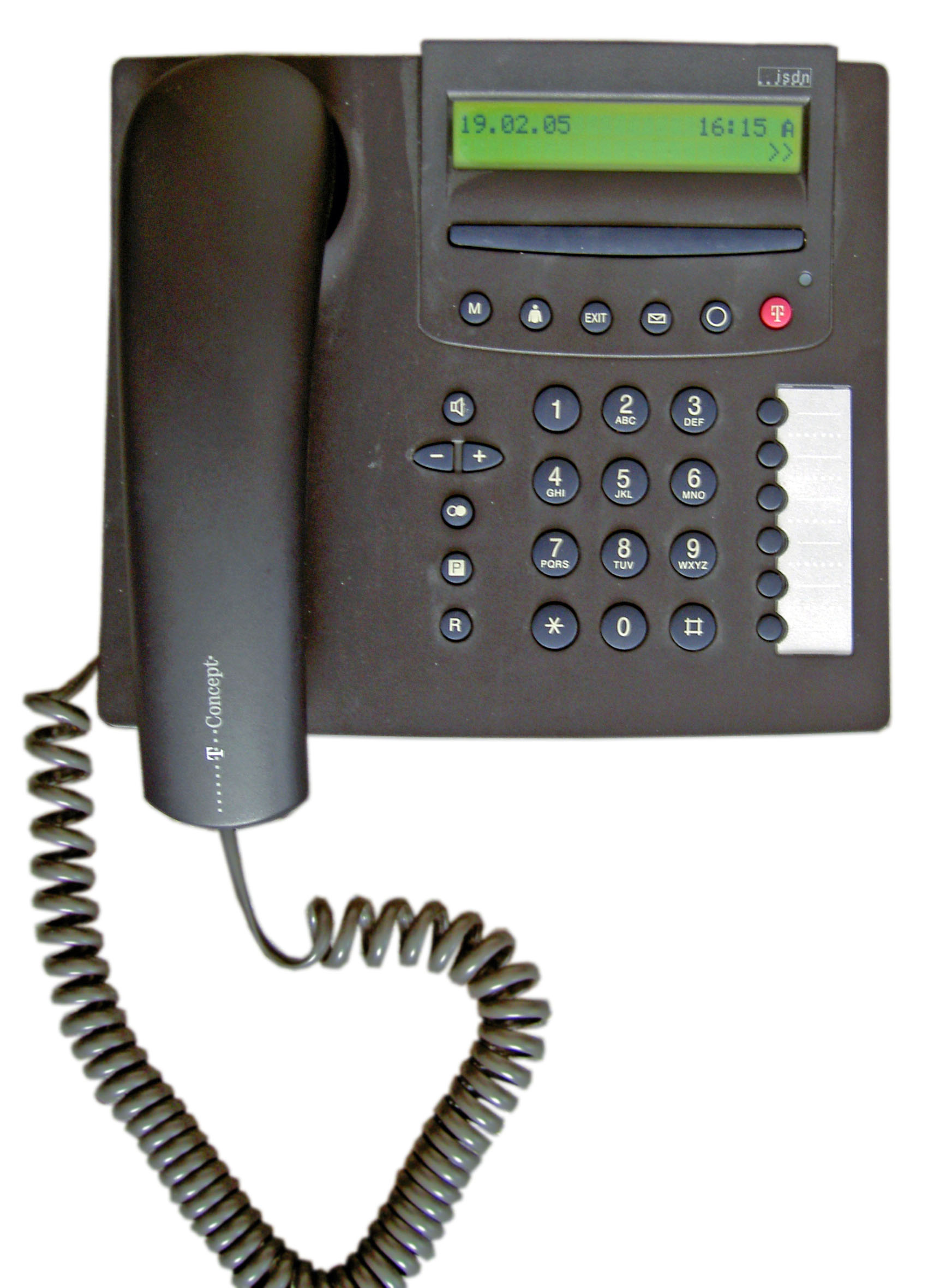 T-Concept ISDN phone.